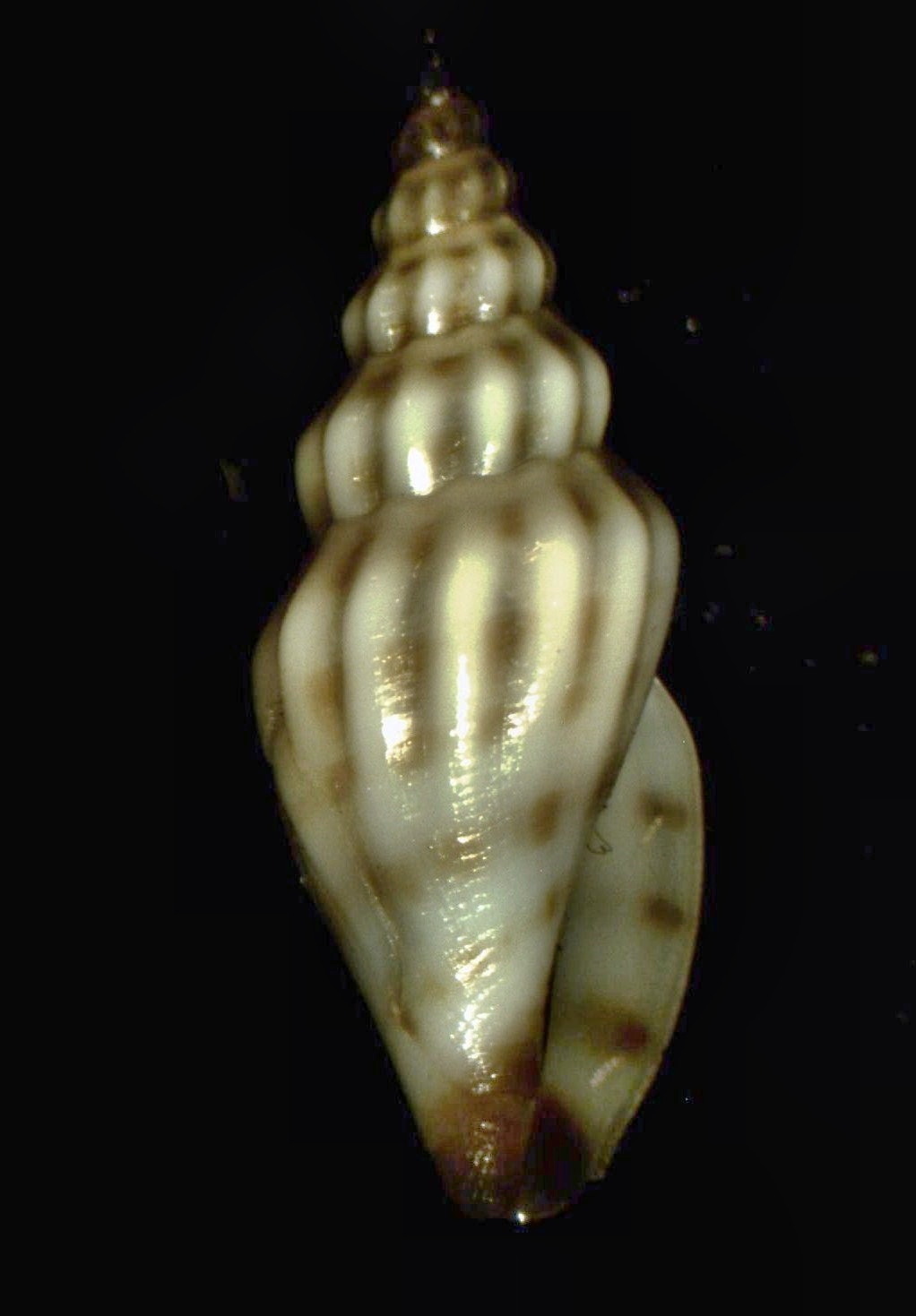 Antiguraleus adcocki (G. B. Sowerby III, 1896) (synonym: Marita bella A. Adams & G. F. Angas, 1864), a cone snail from the family Mangeliidae; Southern Australia